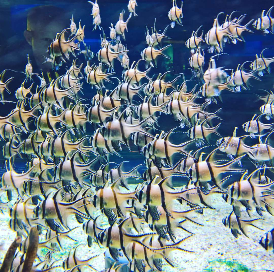 Swimming in packs. Never leave a sole behind! ;-) #Disney #Epcot #Orlando #Florida #Disneyland #Disneyworld #Fish 🐟